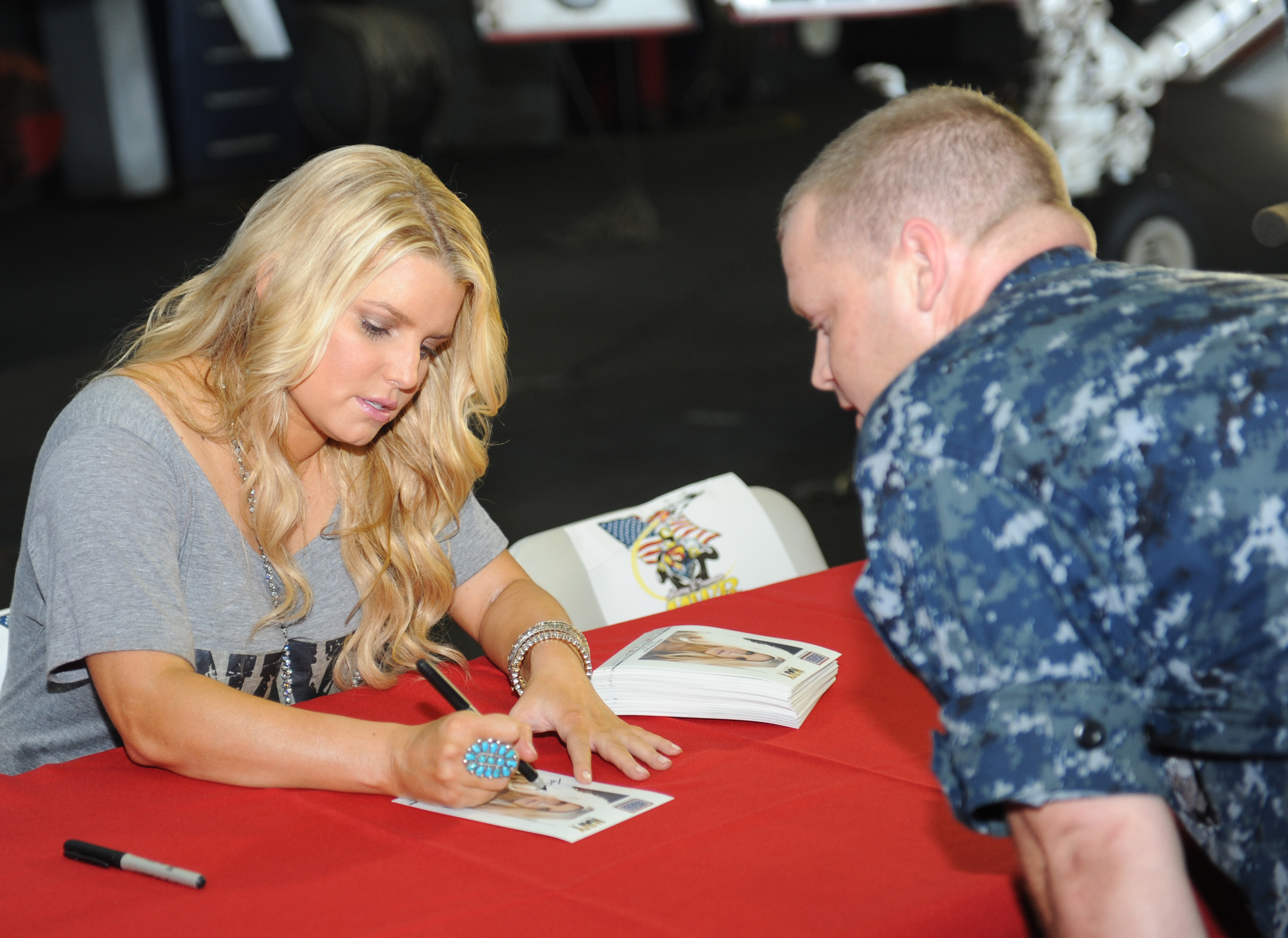 ARABIAN SEA (Oct. 1, 2010) Jessica Simpson autographs a photo for a Sailor during a USO and Navy Entertainment sponsored visit aboard the aircraft carrier USS Harry S. Truman (CVN 75). Simpson visited Harry S. Truman for a two-day embark to meet and greet Sailors and Marines during the ships 2010 deployment. The Harry S. Truman Carrier Strike Group is deployed supporting maritime security operations and theater security cooperation efforts in the U.S. 5th Fleet area of responsibility. (U.S. Navy photo by Mass Communication Specialist 3rd Class Marie Brindovas/Released)